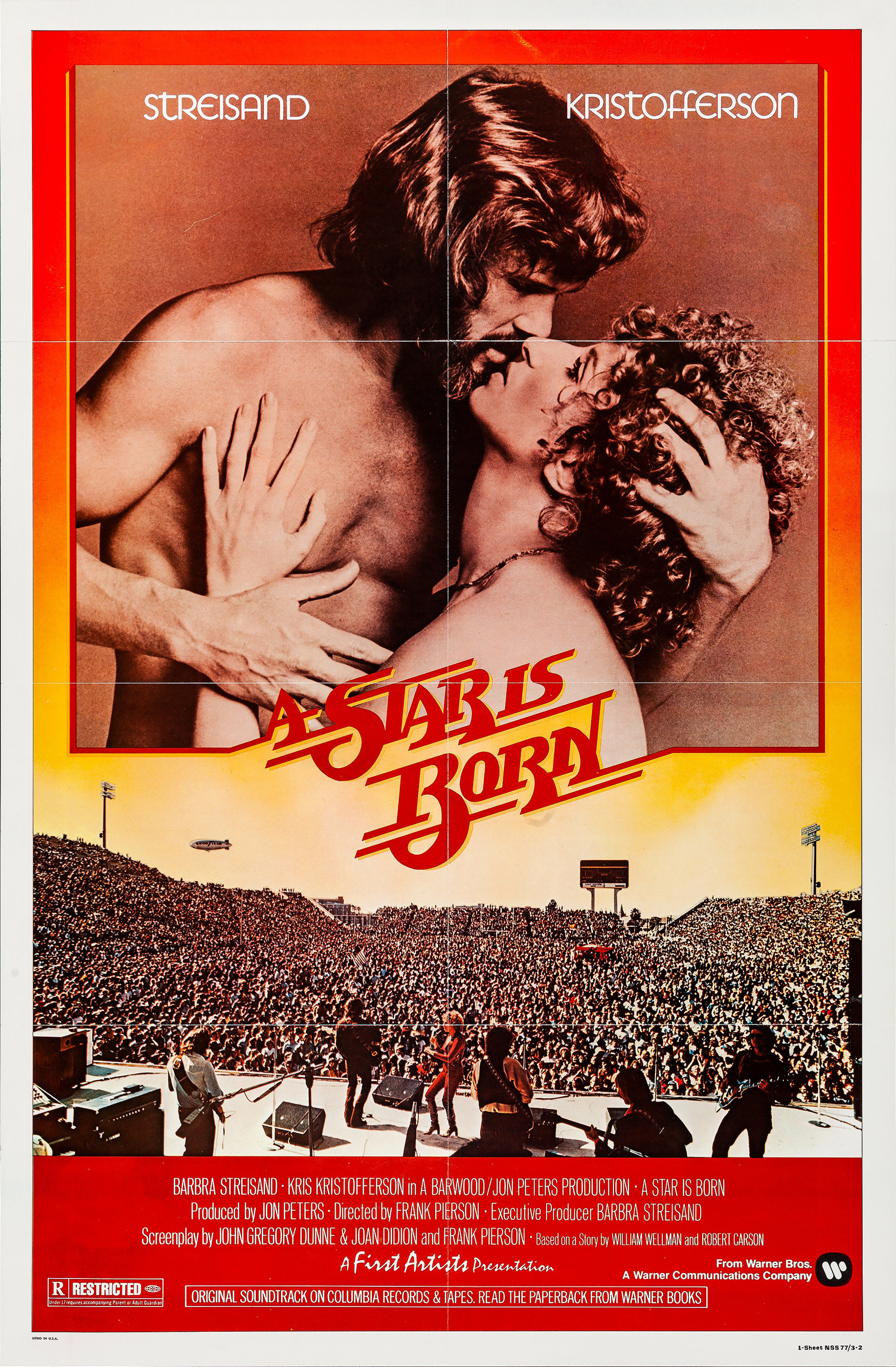 Theatrical release poster for the 1976 American film A Star Is Born, the second remake of the 1937 film of the same name following the 1954 adaptation.